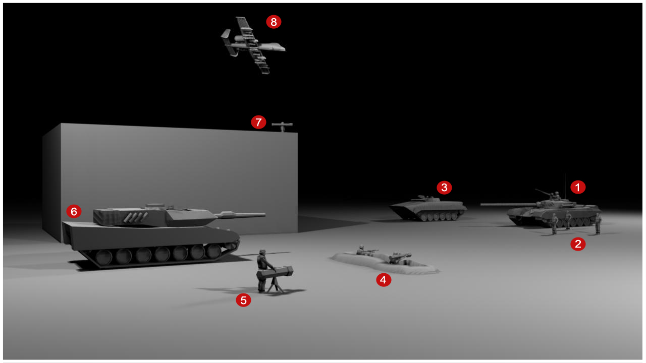 Main battle tank. These are main tasks required for MBT to accomplish. As following: Main battle tank Support infantry in attack Support rest of the troops in attack Combat entrenched and fortified infantry Fight AT systems Fight enemy armored units Fight fortified positions and bunkers (in urban areas) Combat low-flying aircraft